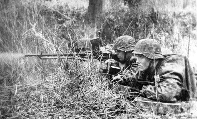 ZB vz. 26 Waffen-SS